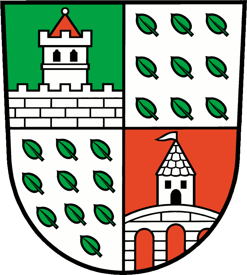 Coat of arms of the German city of Uebigau-Wahrenbrück.